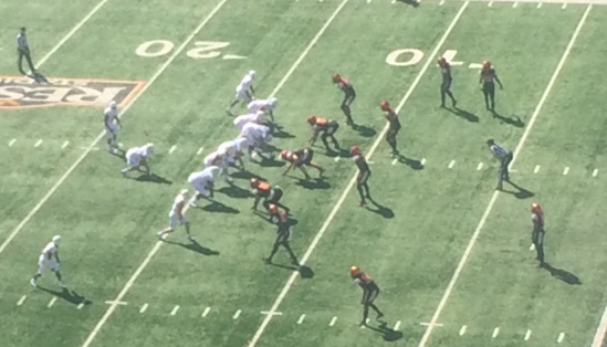 Boise State on offense in the second quarter of their game vs Oregon State at Reser Stadium in Corvallis, Oregon on September 24, 2016.